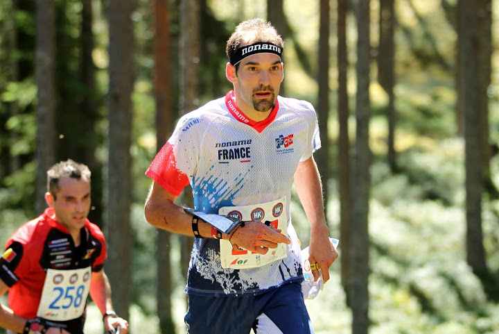 WOC 2013, Long Qual, 7th July 2013, Thierry Gueorgiou